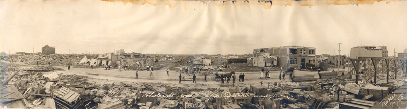 Photo of June 30, 1912 cyclone in Regina, Saskatchewan